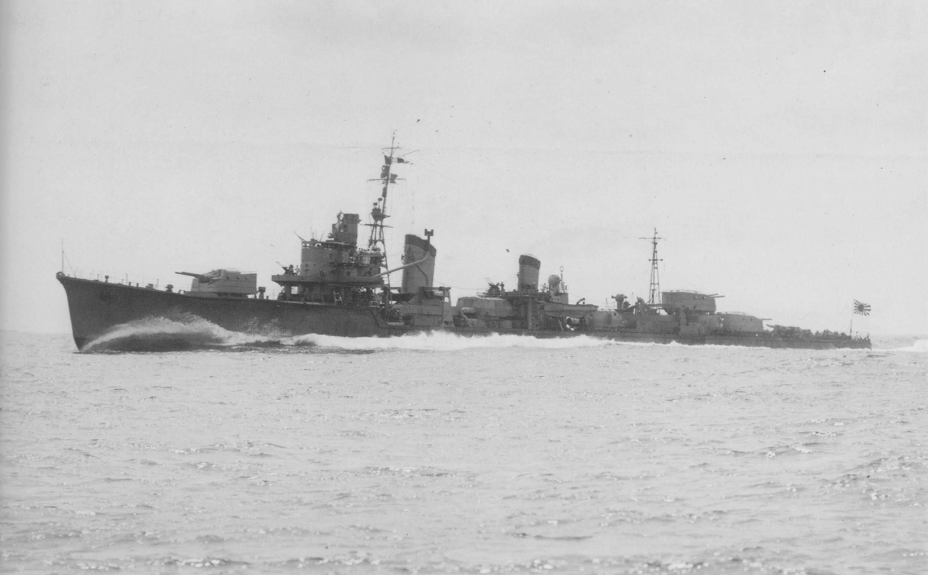 Imperial Japanese Navy destroyer Hayanami